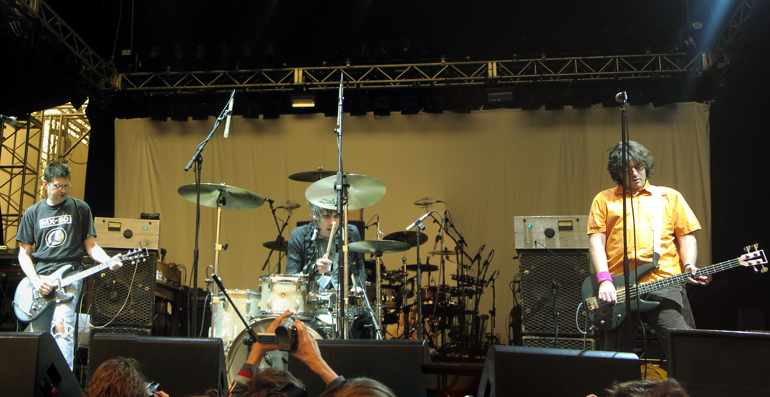 Shellac playing Pavilion Stage ATP vs The Fans